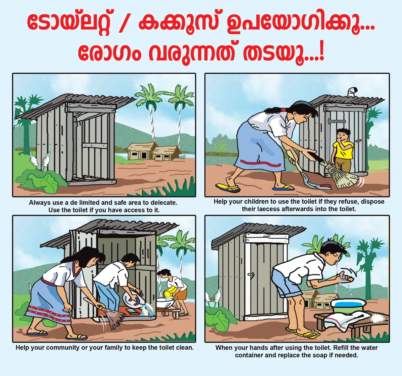 ടോയ് ലറ്റ് ഉപയോഗിക്കു.. രോഗം തടയൂ...